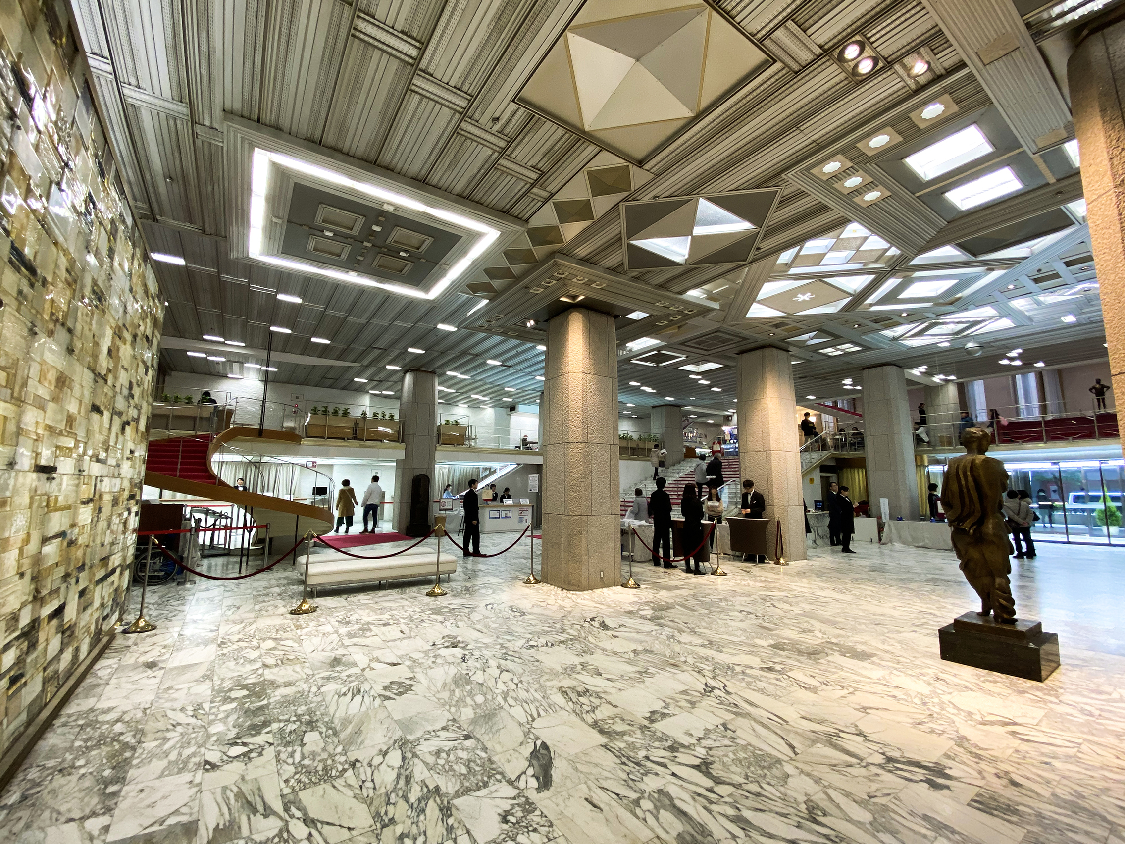 Nissay Theatre